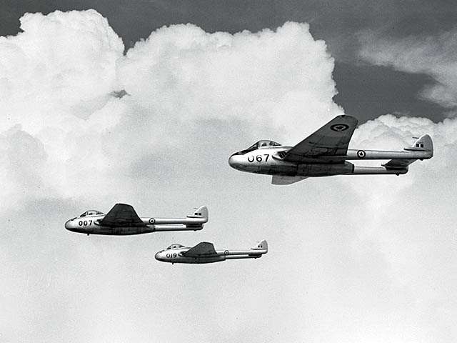 de Havilland DH-100 Vampire